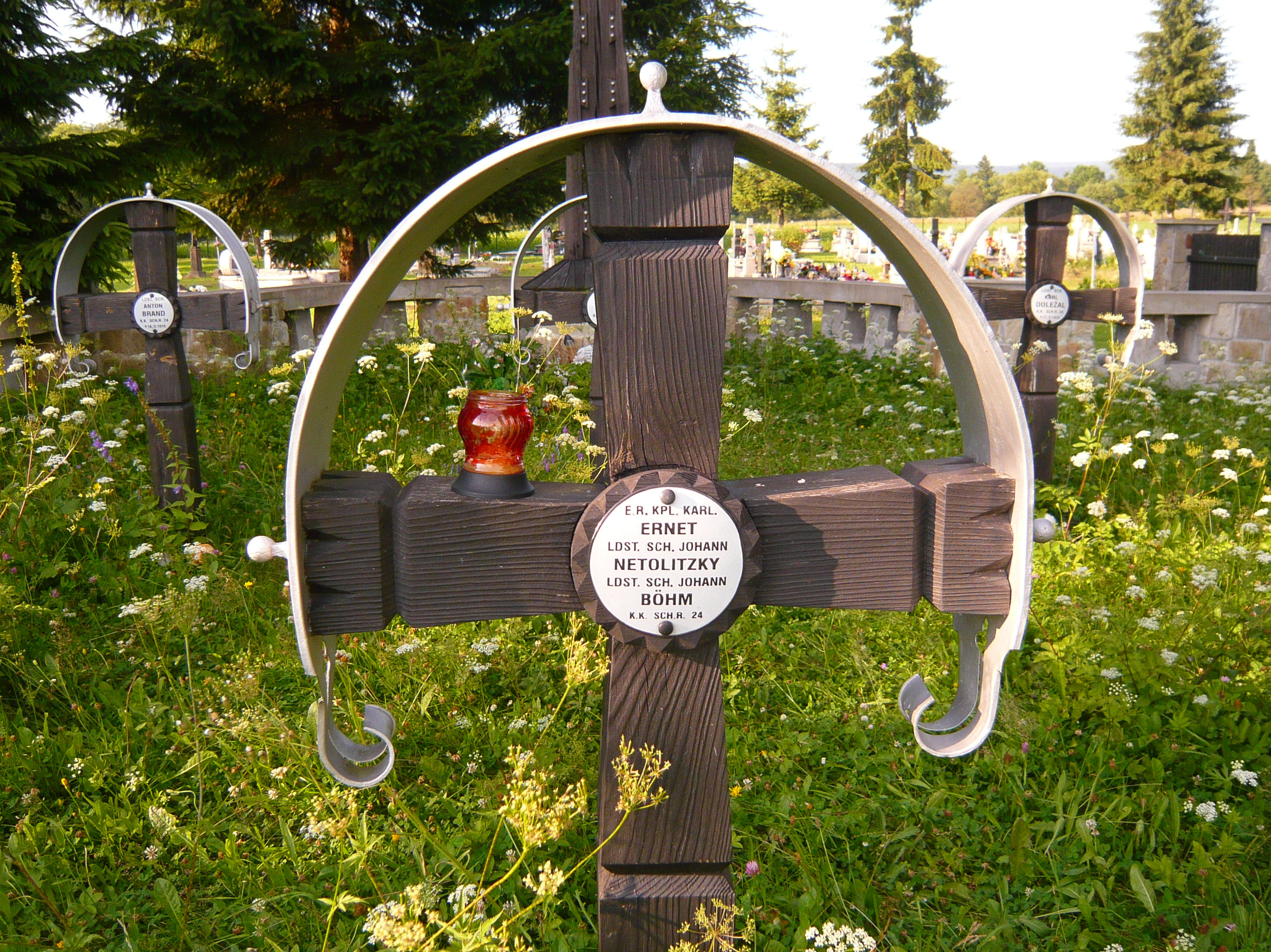 World War I Cemetery nr 56 in Smerekowiec